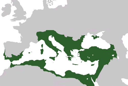 Justinian I era of the Byzantine Empire